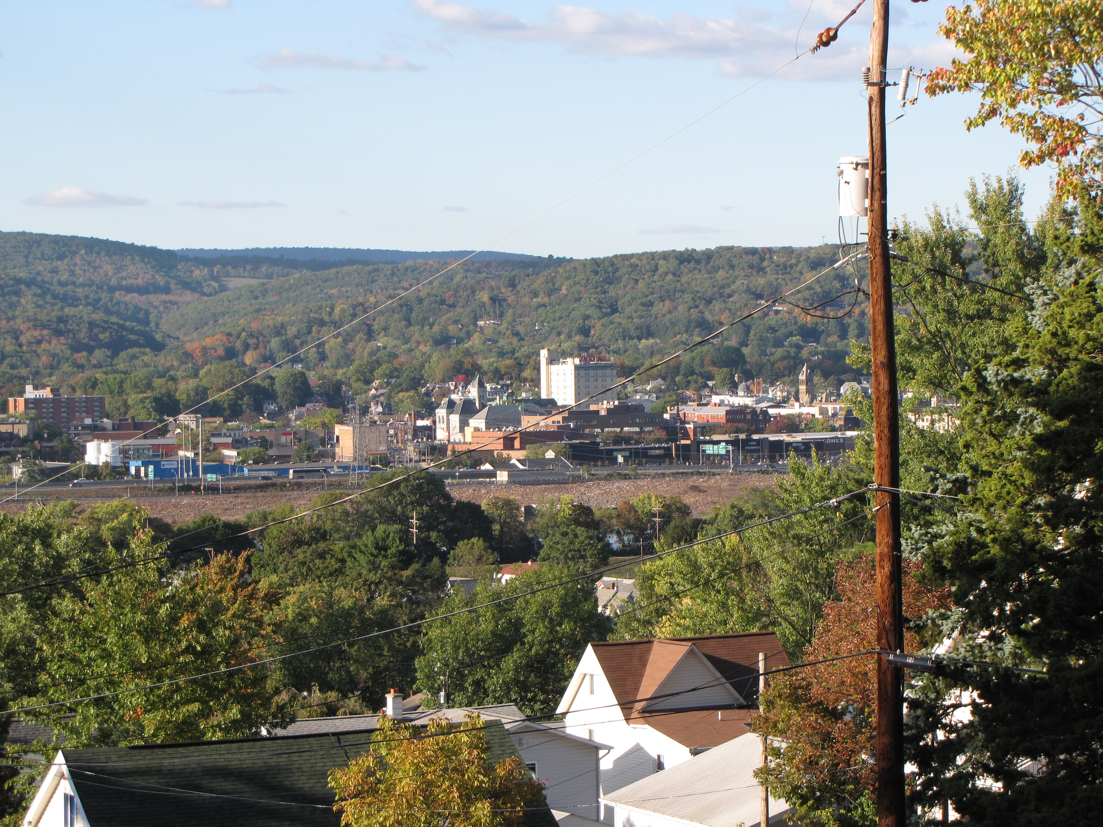 A view of South Williamsport and Williamsport, Pennsylvania as seen from Reynolds Street in South Williamsport. This is were I grew up.